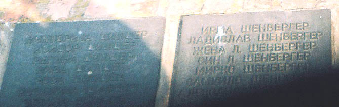 Boards with the names of the victims of 1942 raid in Novi Sad (self made)